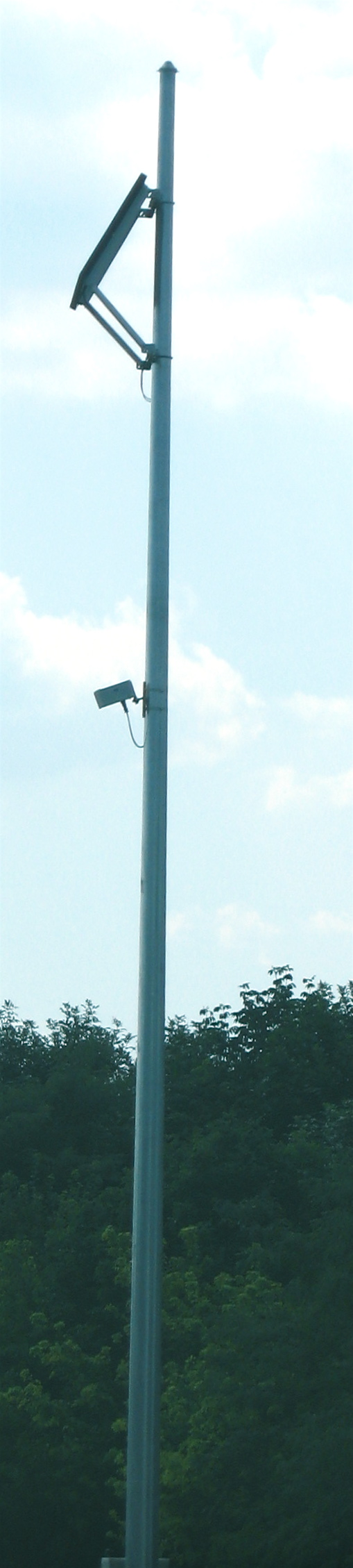 Created by Member F Thorne Re: Indy area roadside sensors being/recently erected. What are they? xaosflux wrote on 07-09-2007 21:22: FThorn, I saw your post regarding these sensors ( and it does look like they are radar based traffic counters. The pictures are great, did you take them yourself? If you did, would you mind releasing them under the Creative Commons open source publishing license, so that I can add them to the the wikipedia article on traffic counters? ( This type of licensing requires attribution of the original author, but allows anyone to use them for any purpose. If this would be OK, please reply to this PM. Thank you, xaosflux Thanks. You can use the photos anyway you desire. I agree to make them open-sourced. You can attribute F. Thorn, if you desire.